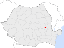 Location of Focșani in Romania.